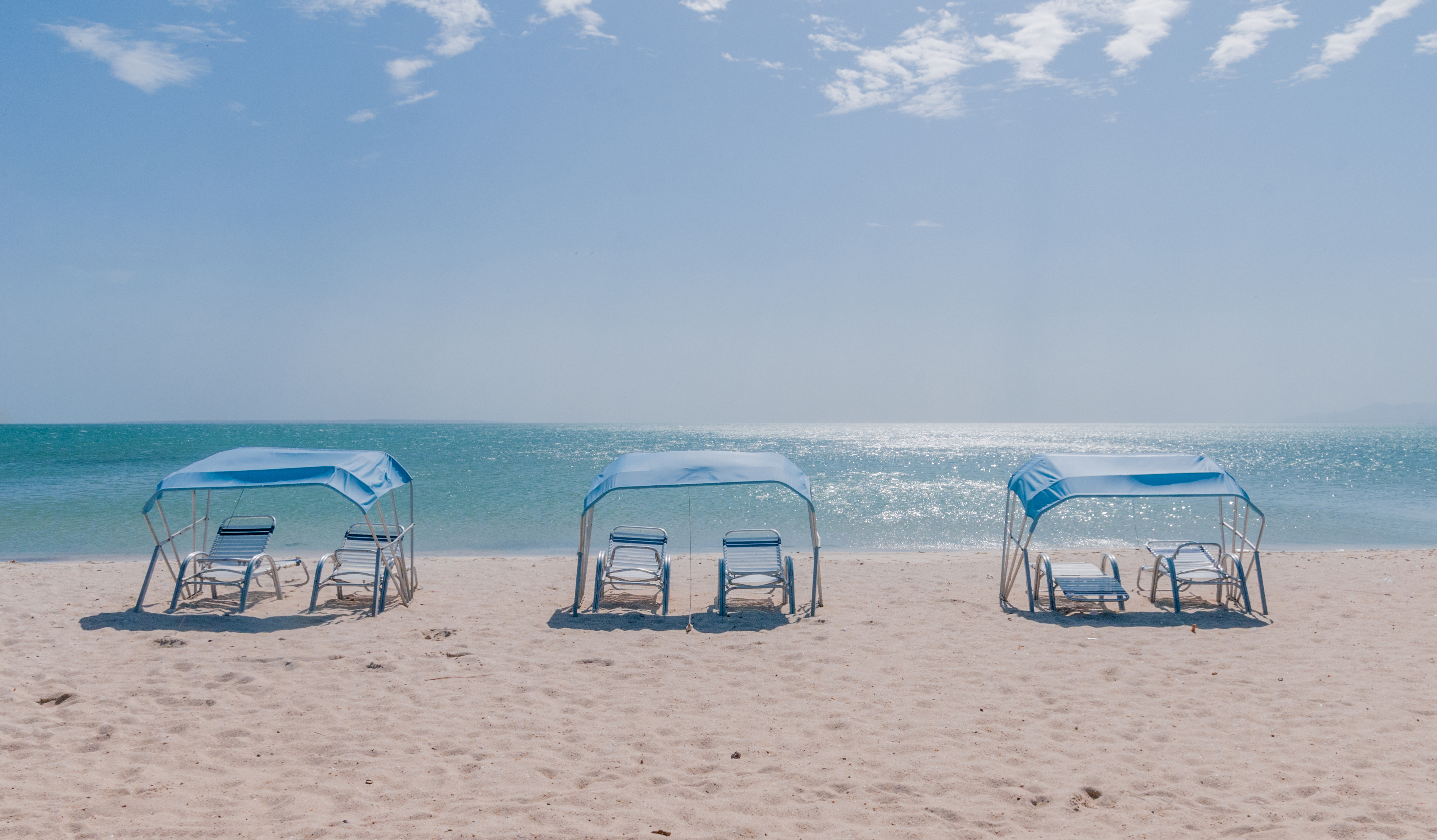 Oasis beach in Guamache, Margarita Island